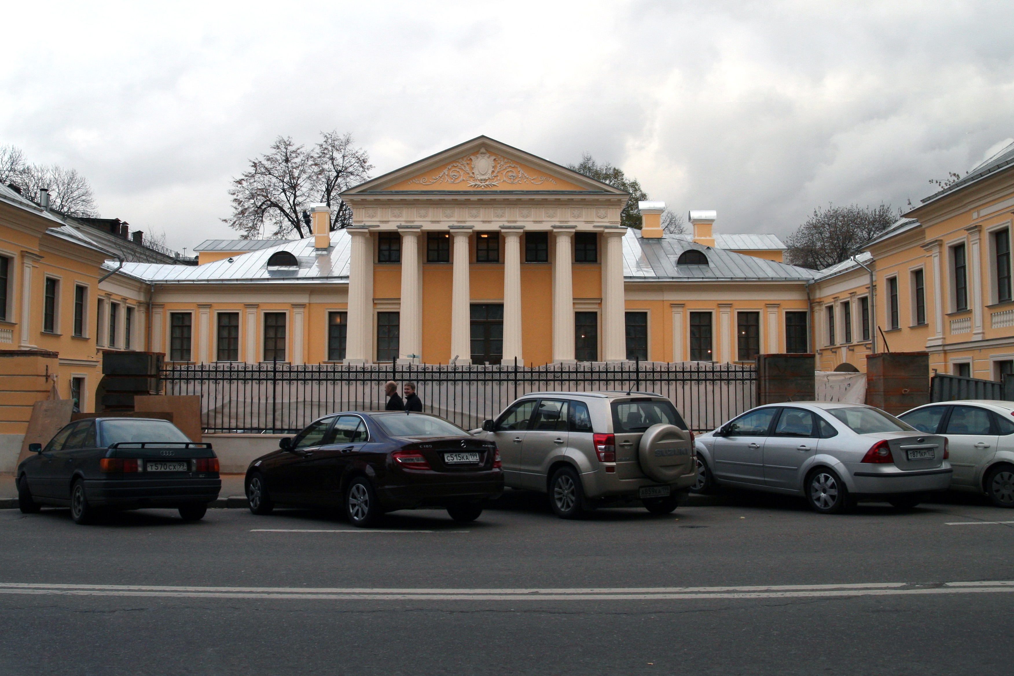 Soymonov Mansion, Malaya Dmitrovka Street 18